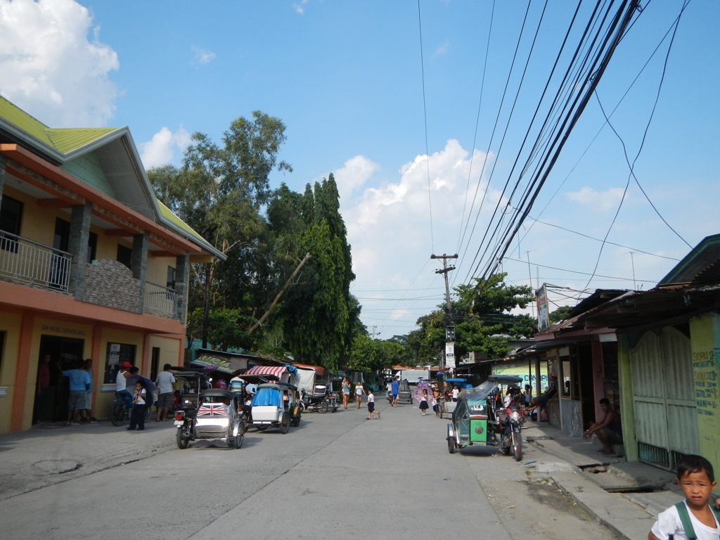 Barangay San Miguel, Tarlac, Tarlac City, along Hacienda Luisita Road (San Miguel, Capehan, Balite, Lourdes, Central and Mapalacsiao, Tarlac City) Hacienda Luisita from and along MacArthur Highway.